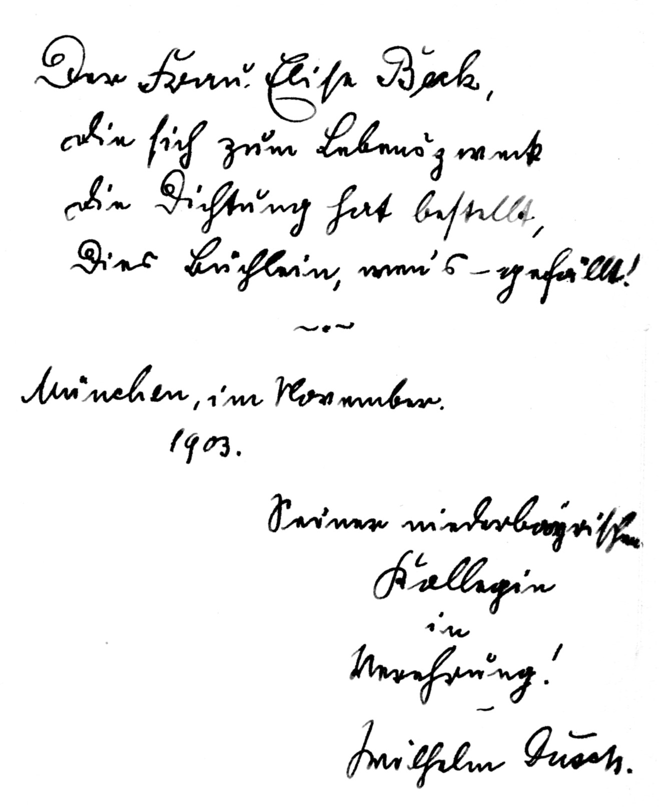 dedication to writer Elise Beck by Dusch